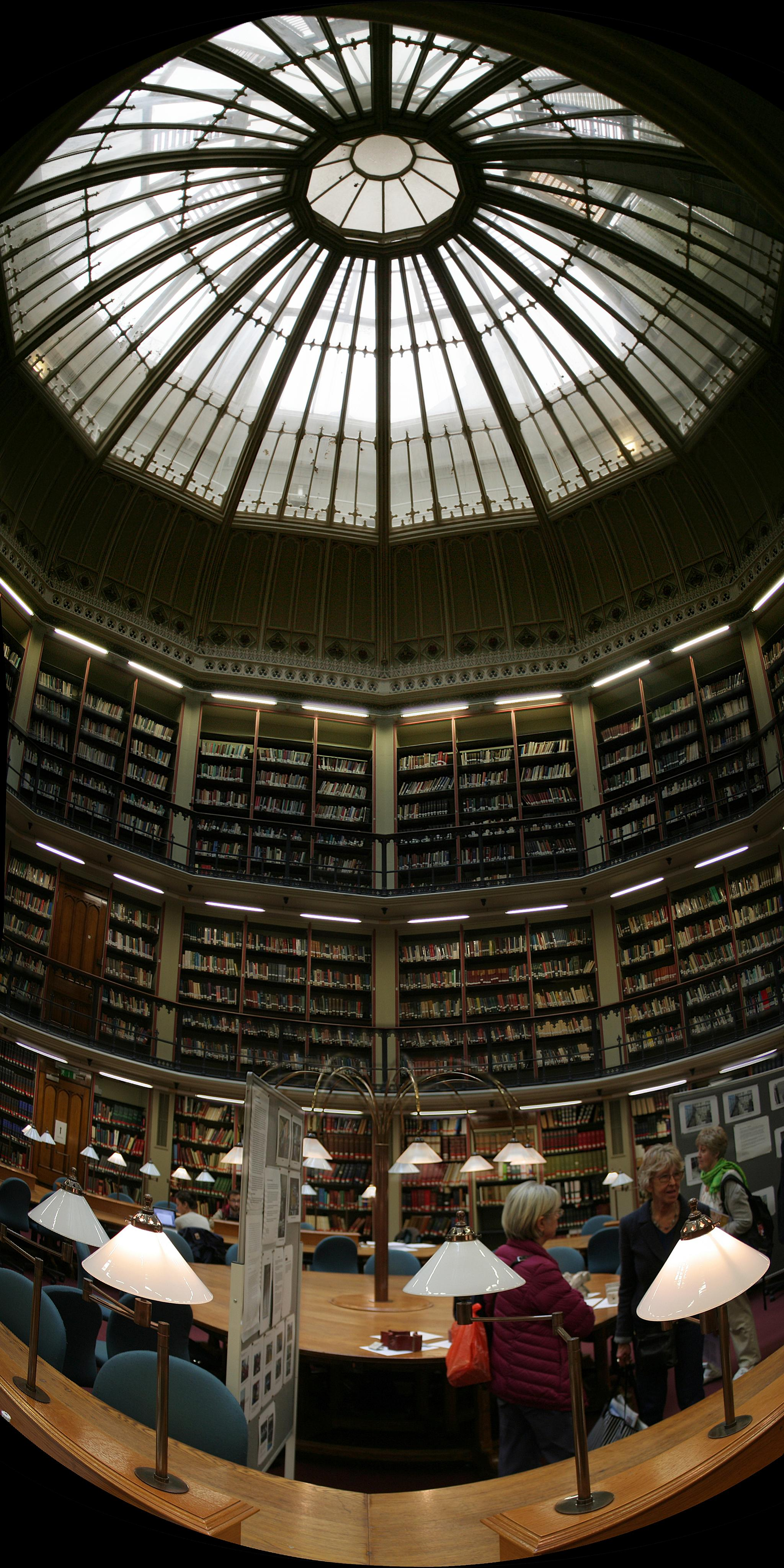 Stitched fish-eye panorama of the King's College London Maughan Library reading room featured in The Da Vinci Code in September 2013.